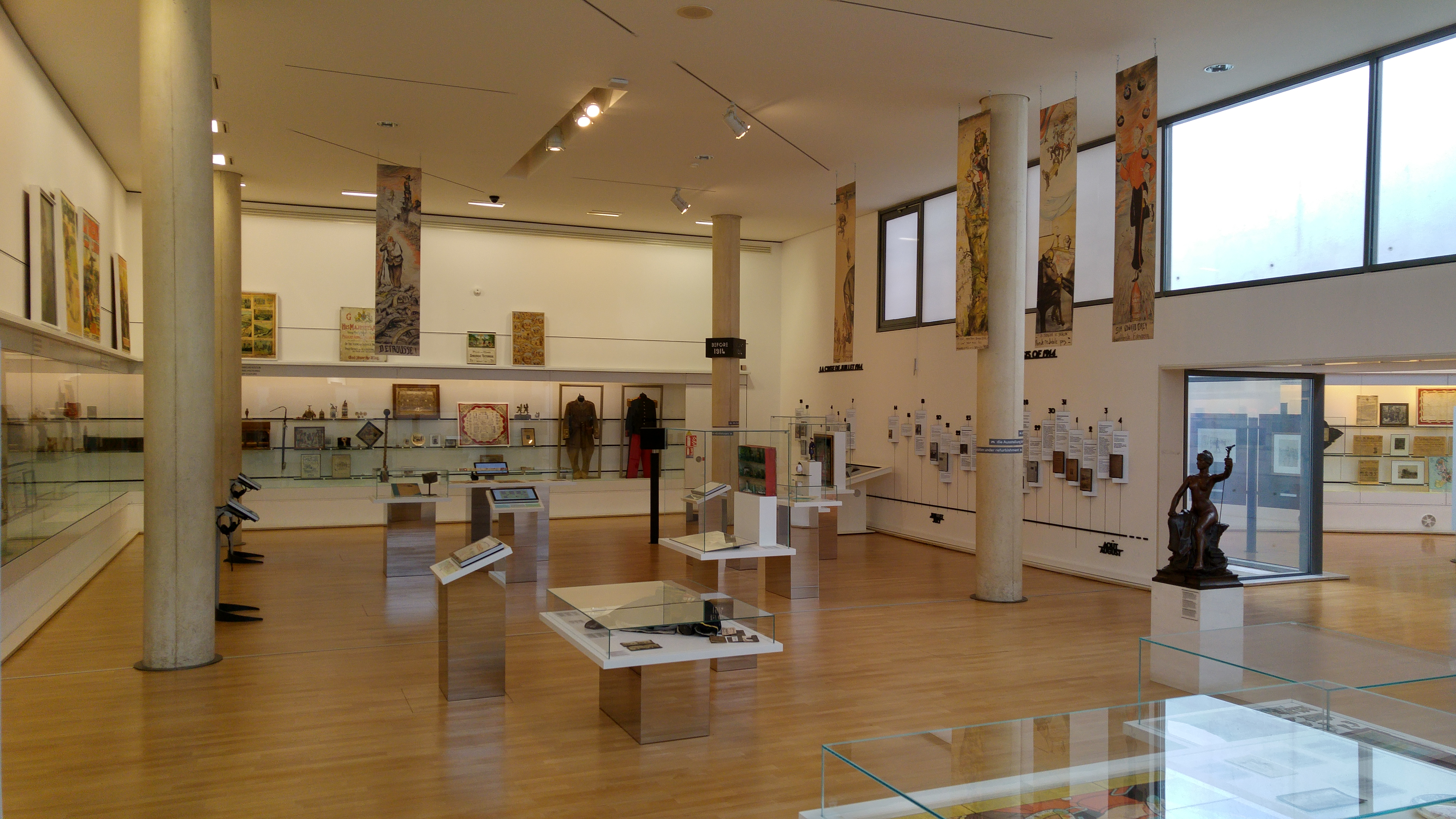 World War I museum "Historial de la Grand Guerre", Peronne, France